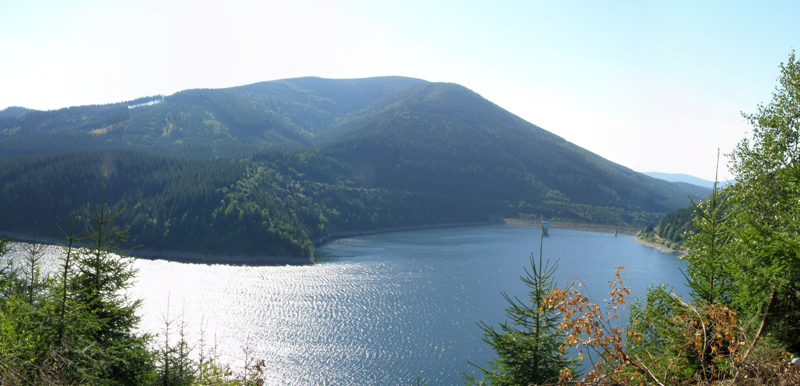 Šance Reservoir on the Ostravice River in the Moravian-Silesian Beskids, Czech republic